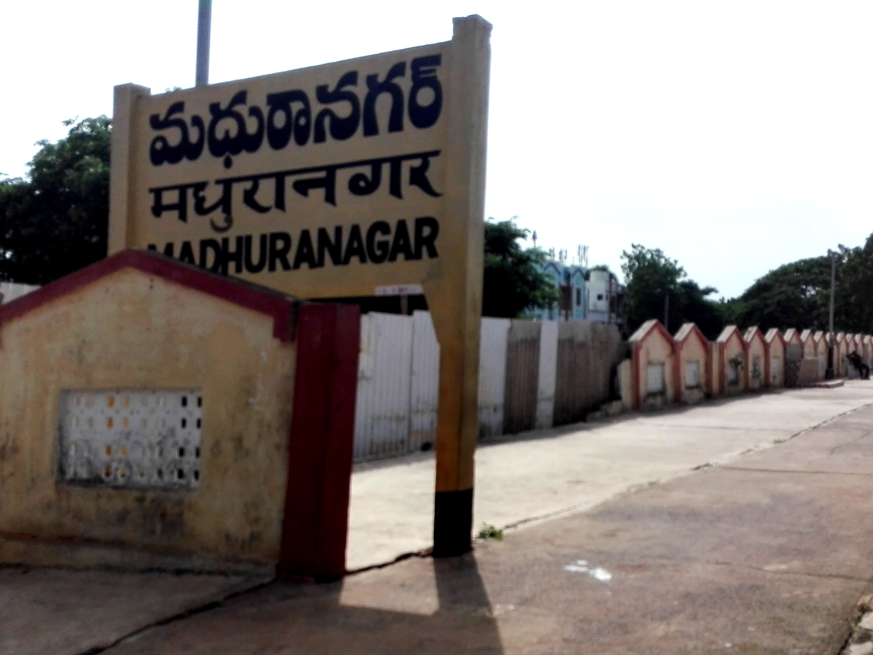 Madhuranagar Railway station name board in Vijayawada